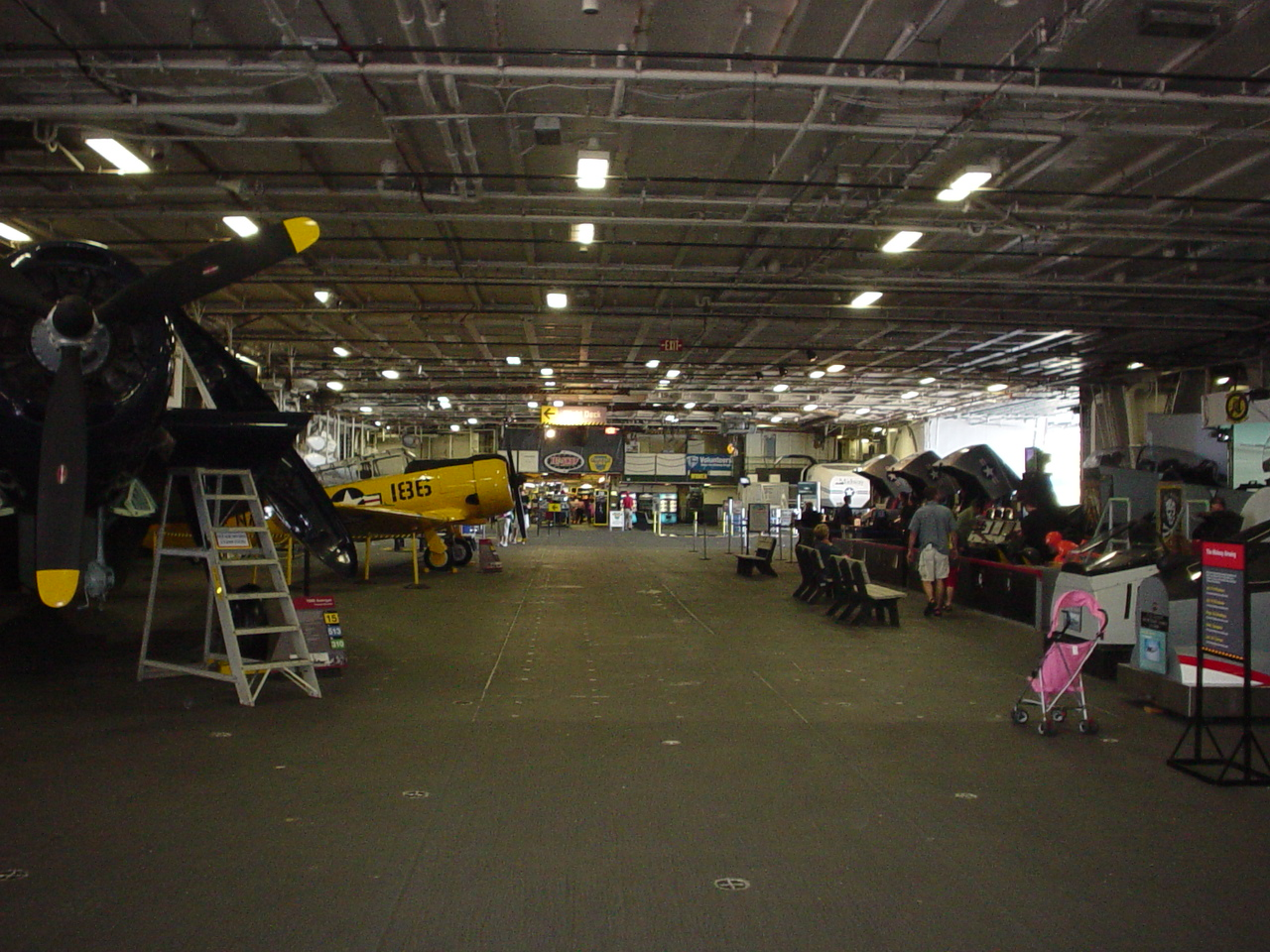 Main exhibit area of the USS Midway Museum on the former hangar deck, looking aft.